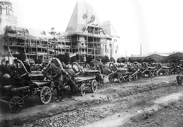 Moscow, 1903 or 1904, construction of Yaroslavsky Rail Terminal